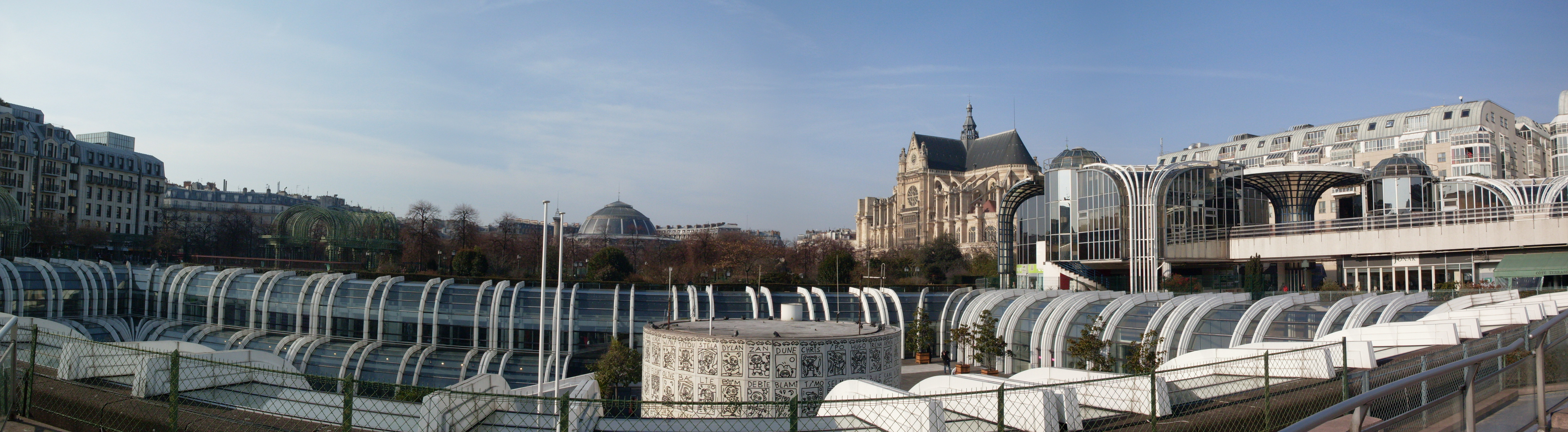 Forum des Halles, Paris (France)